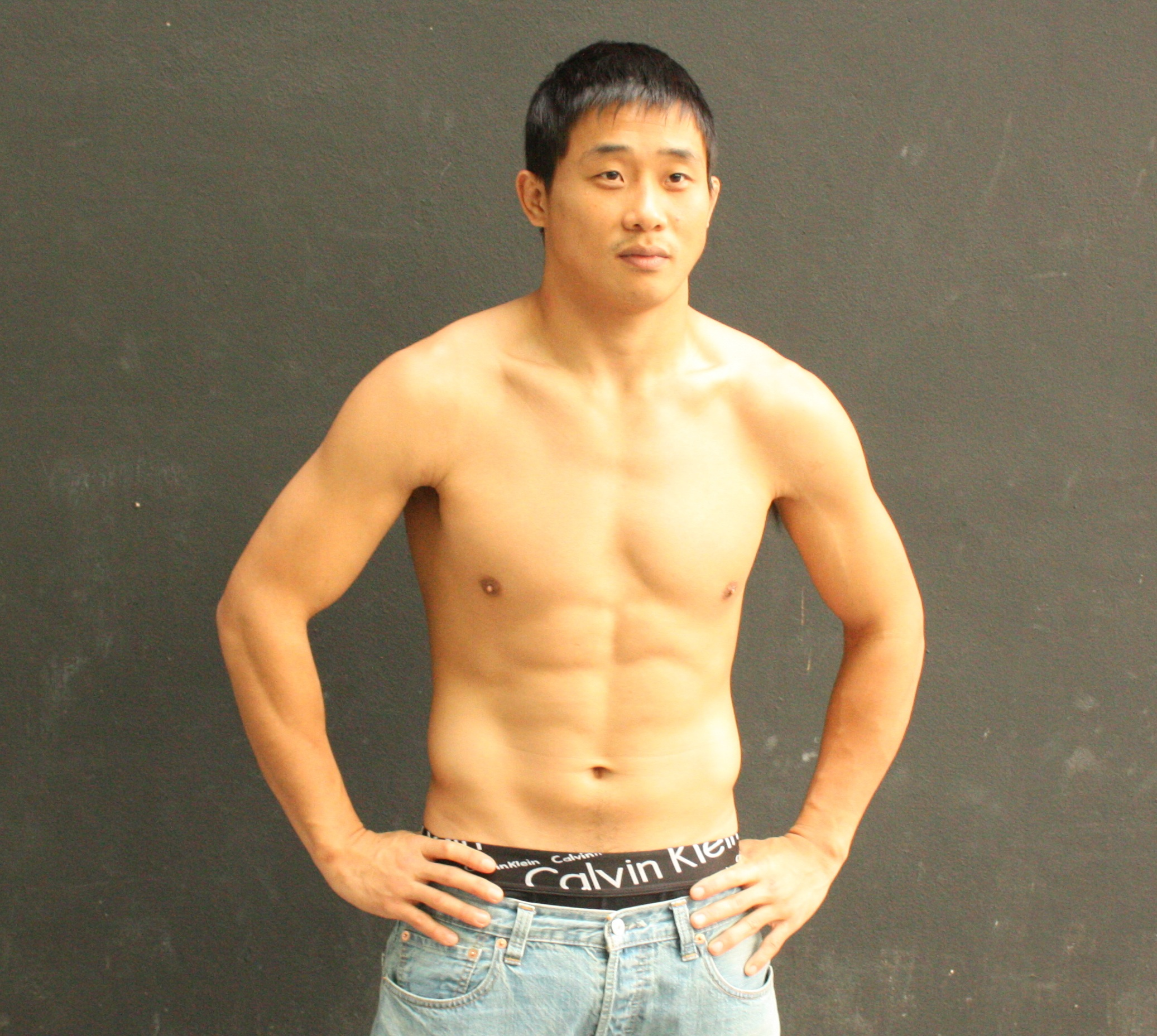 South Korean mixed martial artist Brian Choi